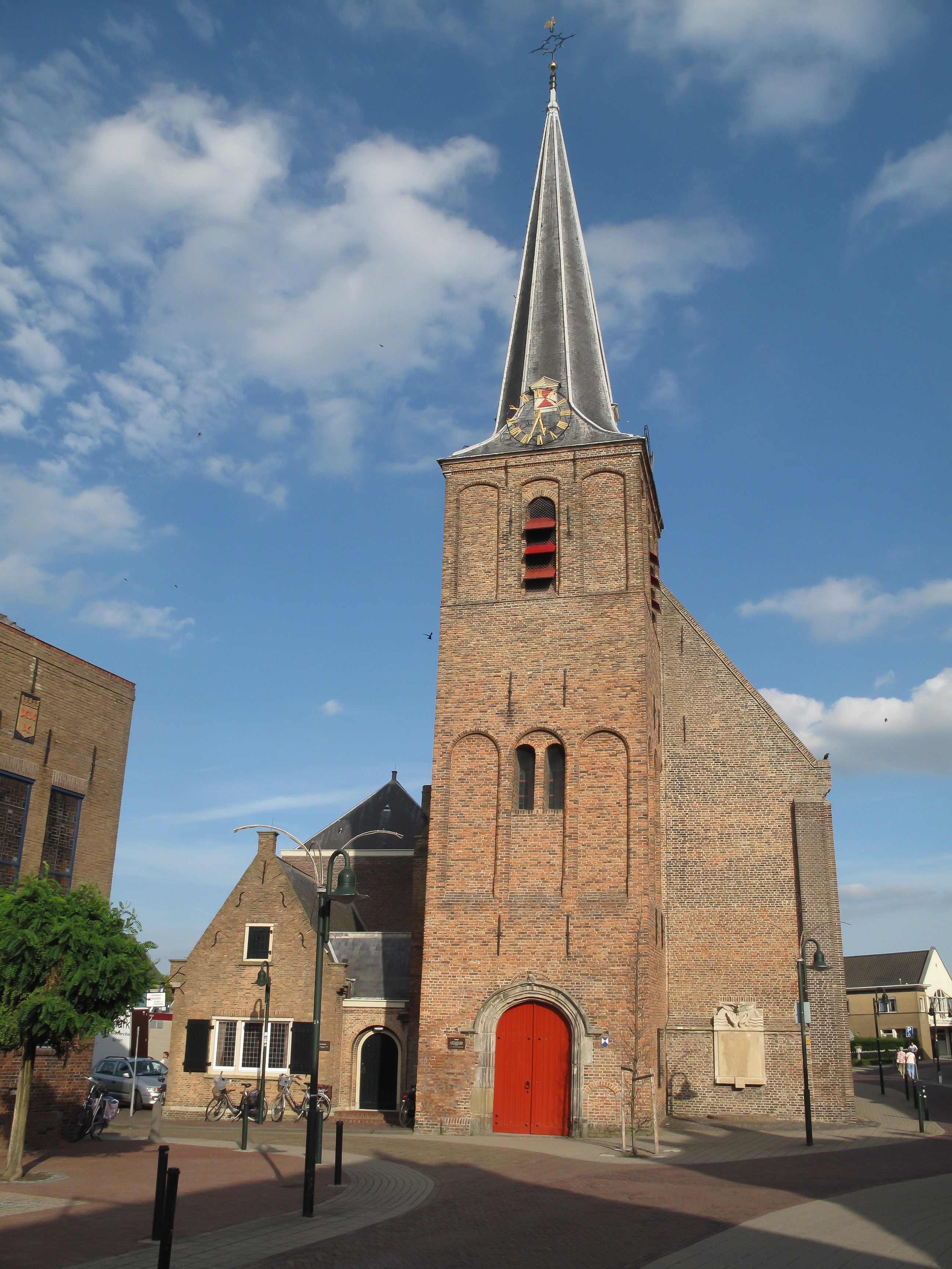 Strijen, church with war memorial (1952) by Toos Neger